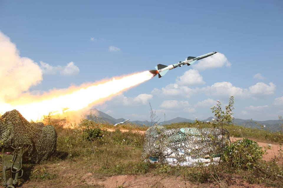 S-75 Dvina in Vietnamese service